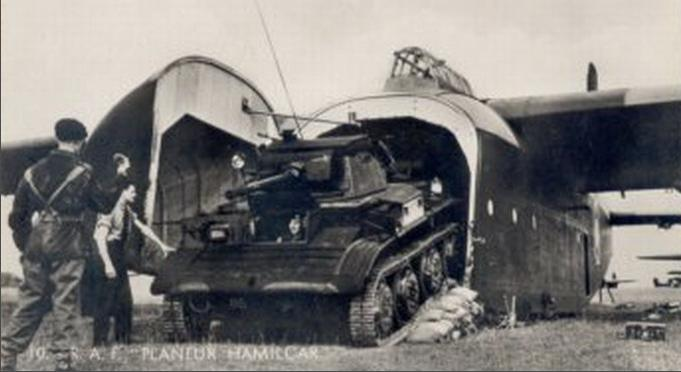 Char Tetrach